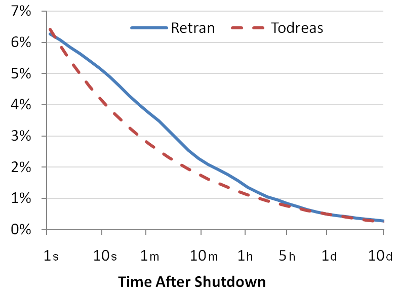 Graph of Decay heat as fraction of full power from a SCRAMed operating power reactor. Two models are displayed in the graph, one being Retran, which uses a 11 group exponential decay, the other being Todreas and Kazimi from published work in 1990, which was adapted from previous empirical correlations. The Retran model inputs no assumptions of operating history, and the Todreas model requires the operating time before shutdown, which was assumed to be 2 years for this application.